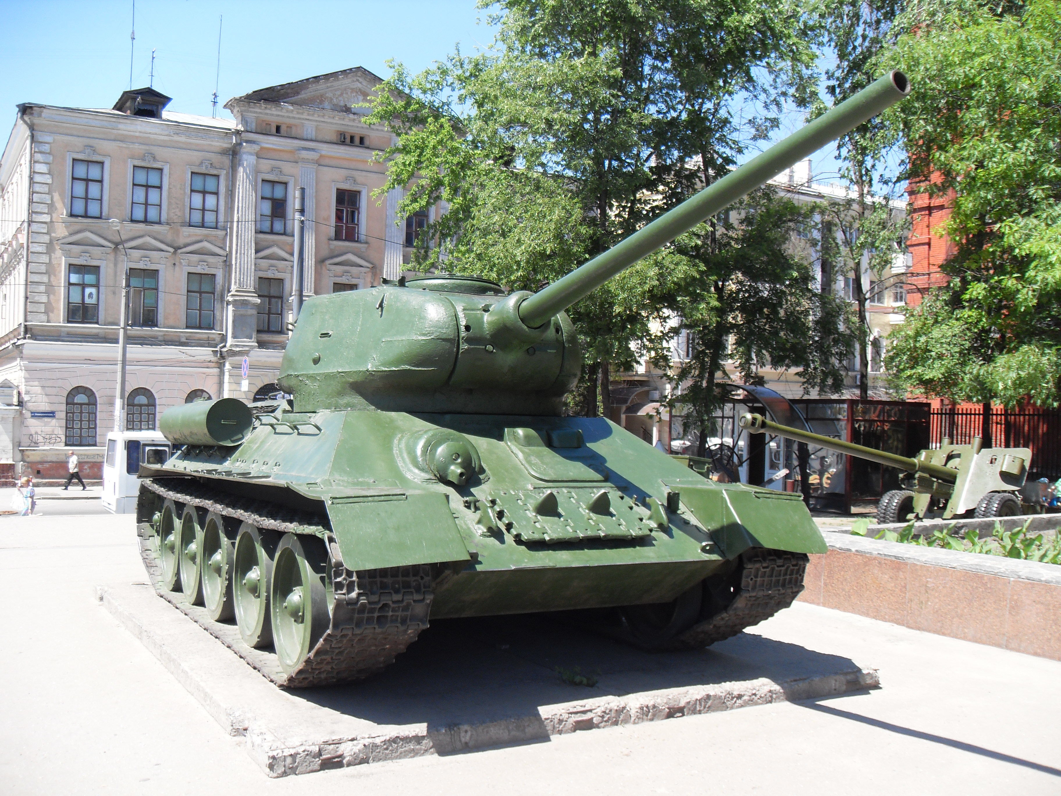 Soviet tank model Т-34-85 from the World War II next to the History Museum, on the Constitution Square in Kharkiv, Ukrania.